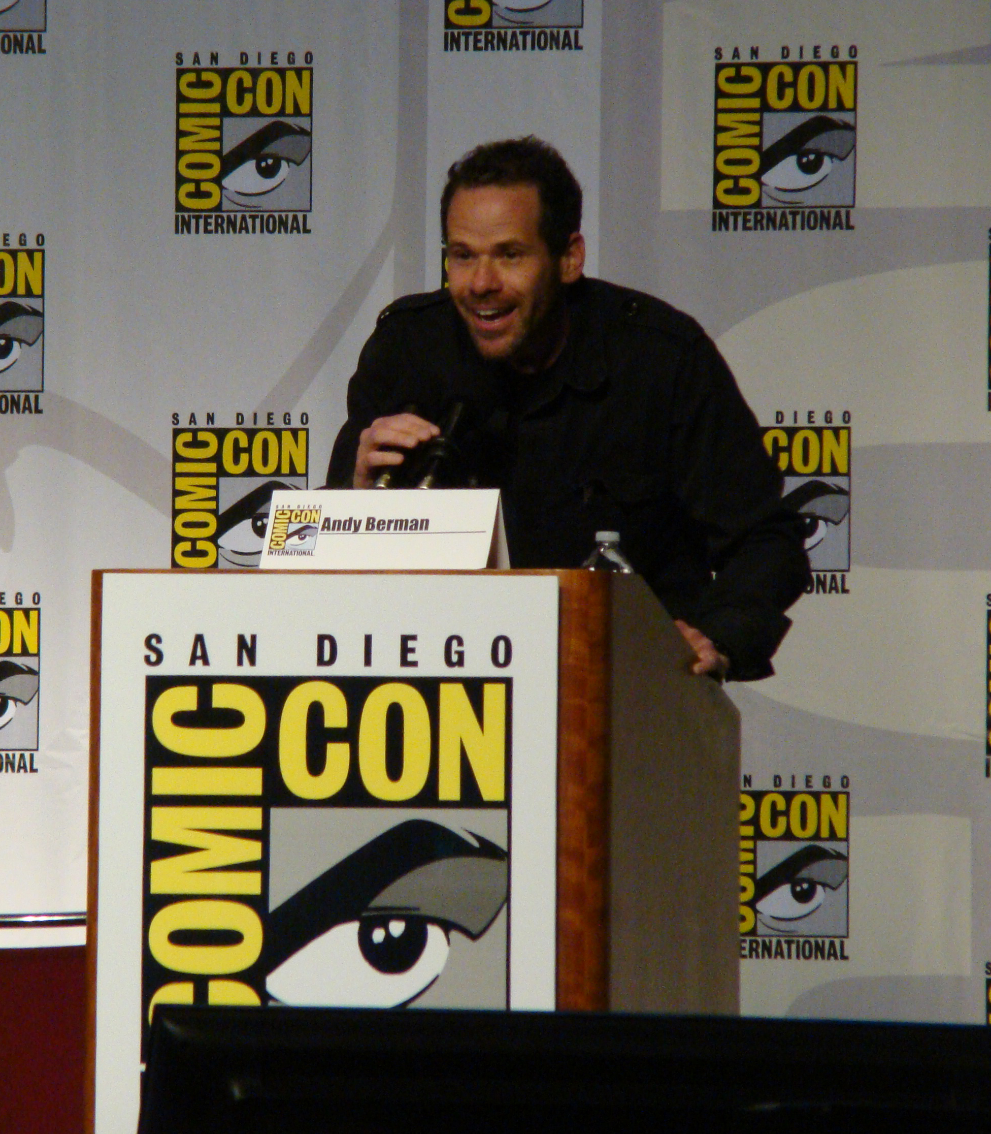 Psych writer Andy Berman at the 2010 Comic-Con. Cropped to focus on him.